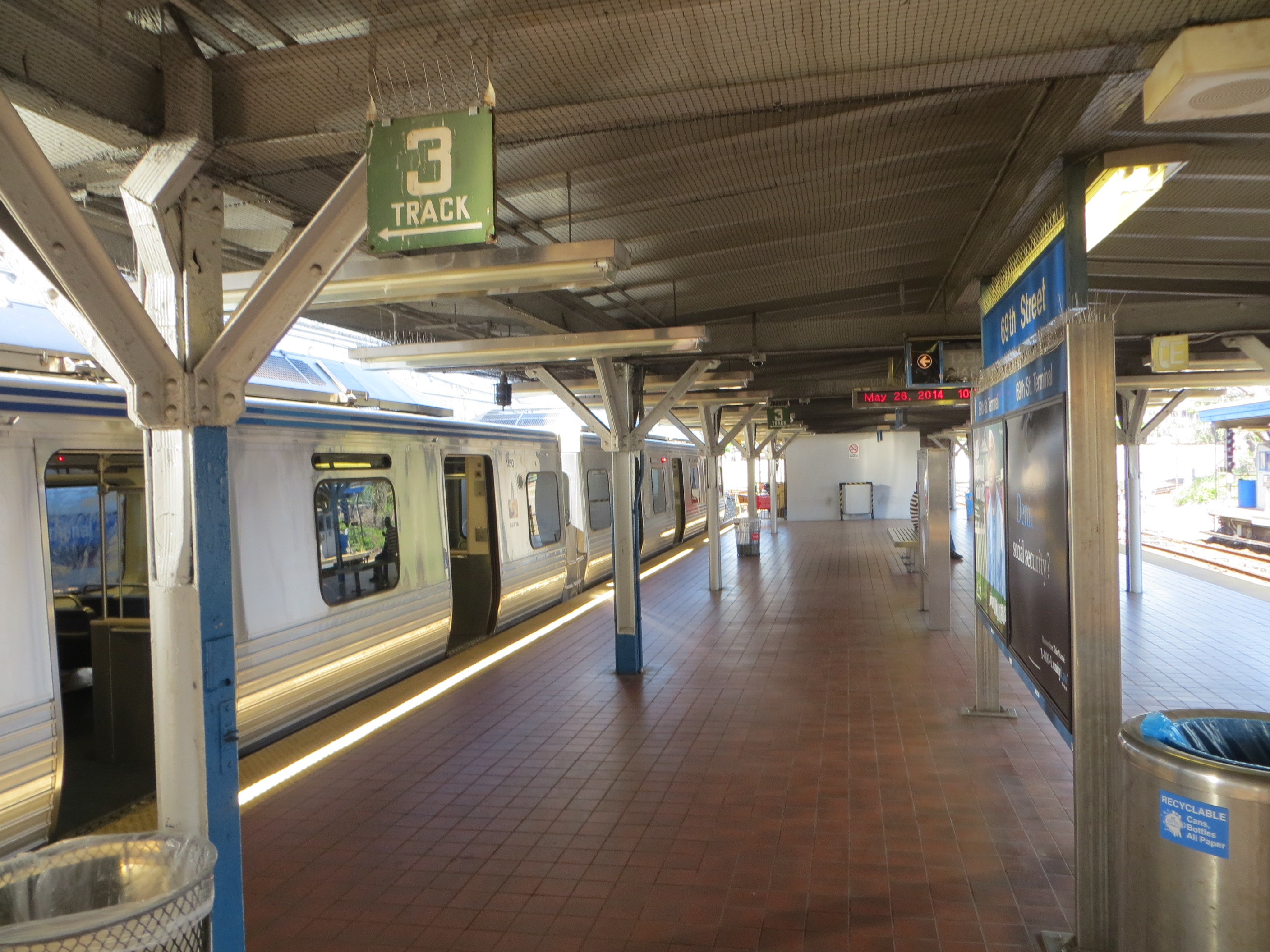 20140526 16 Market Frankford El @ 69th St.